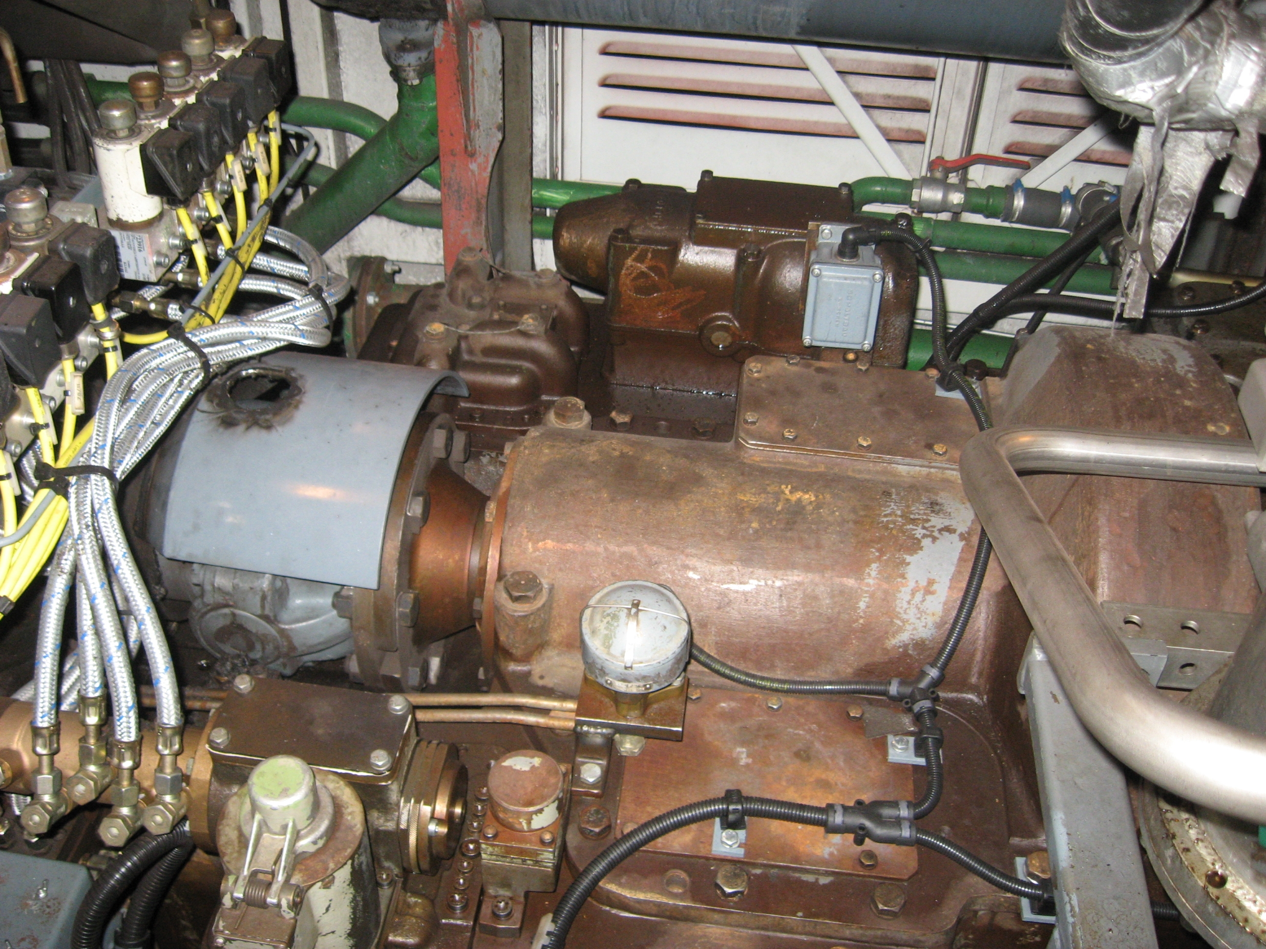 MGO V16 BSHR-engine on Dv12-class locomotive.